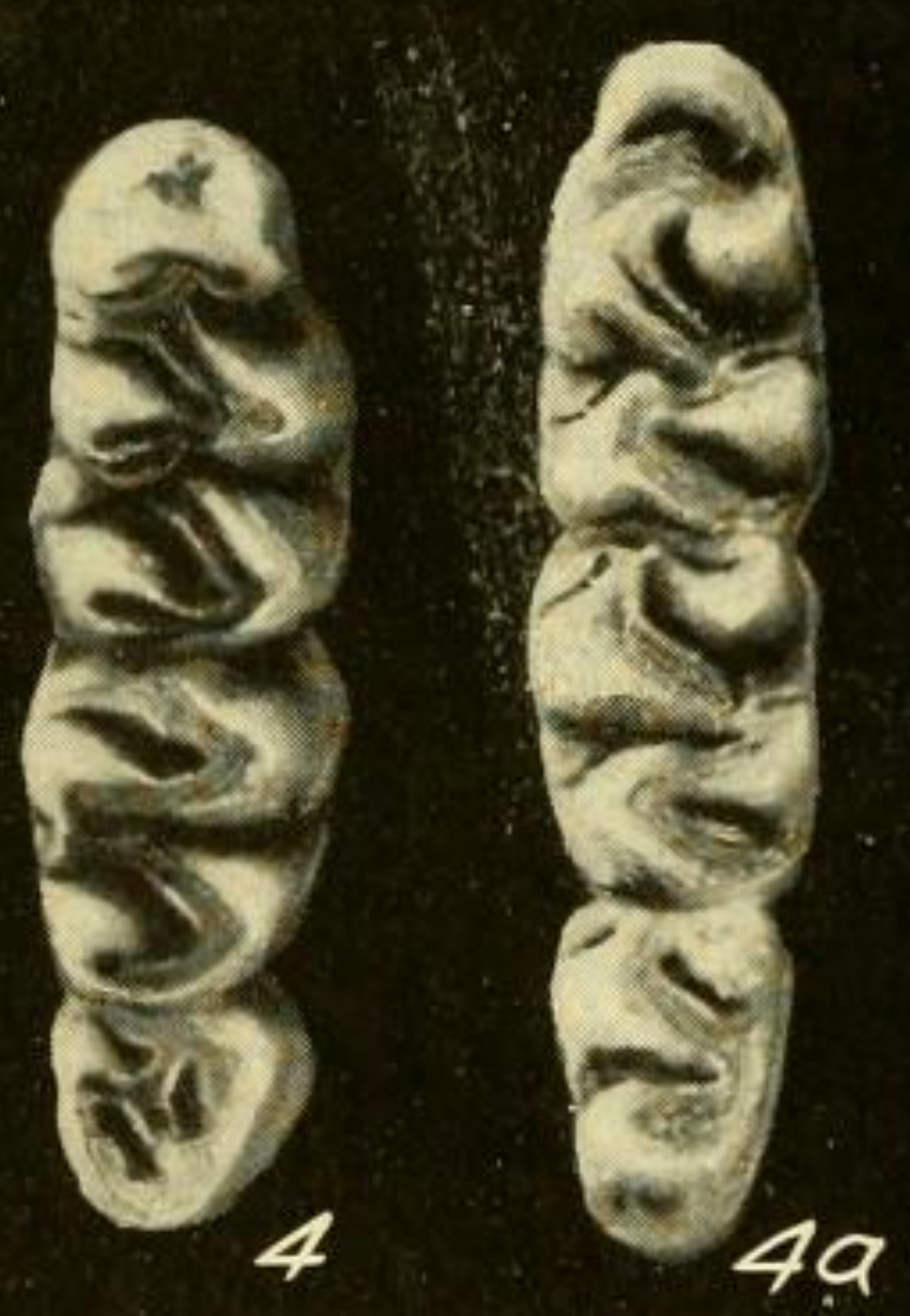 Upper (left) and lower (right) toothrow of Oryzomys talamancae (now Transandinomys talamancae). This is specimen USNM 179601, a subadult female from Cana, Panama.